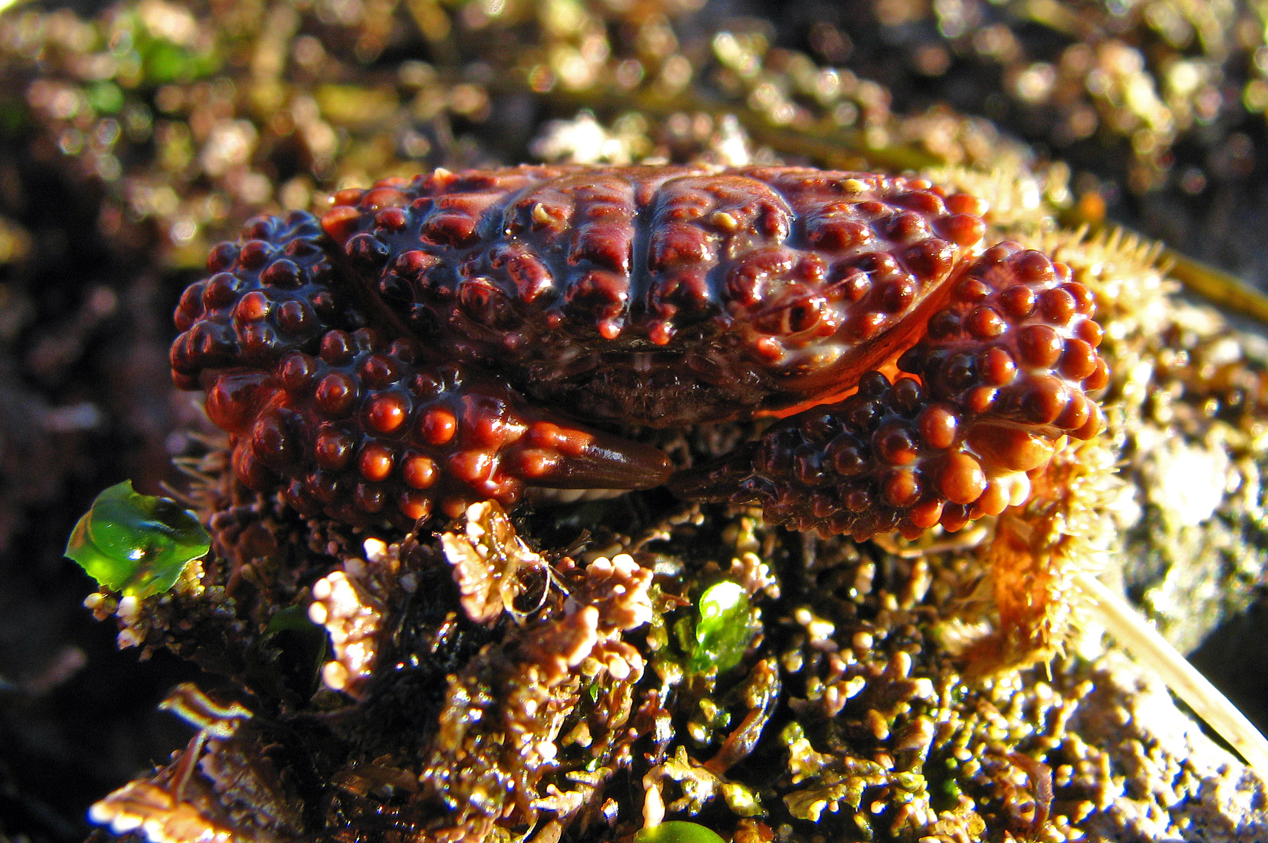 A stationary Lumpy Pebble Crab found in a tidepool at Cabrillo National Monument. This specimen was very small, maybe 4cm or so - about the size of an American Half Dollar.